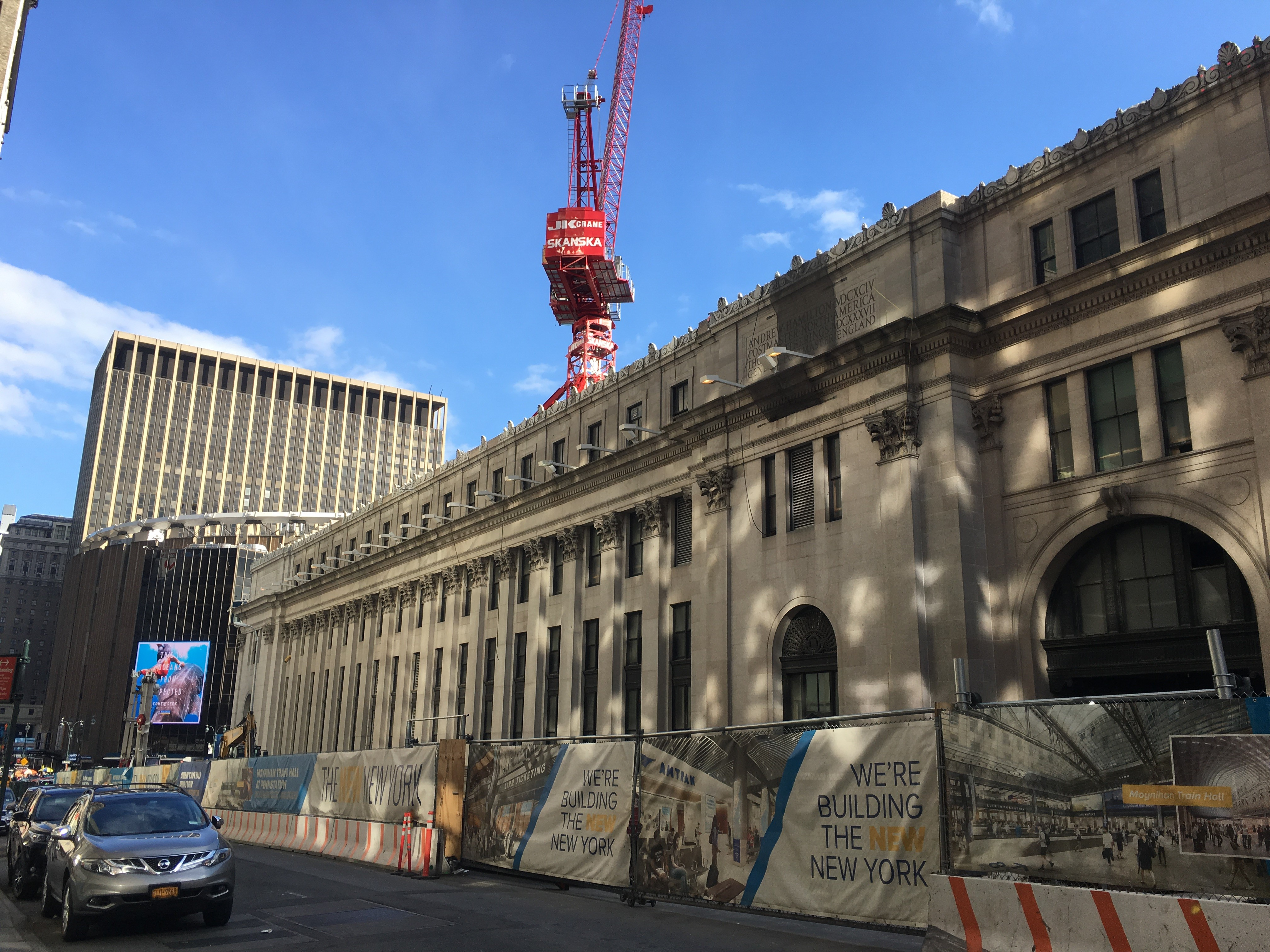 Farley Post Office Building with construction crane